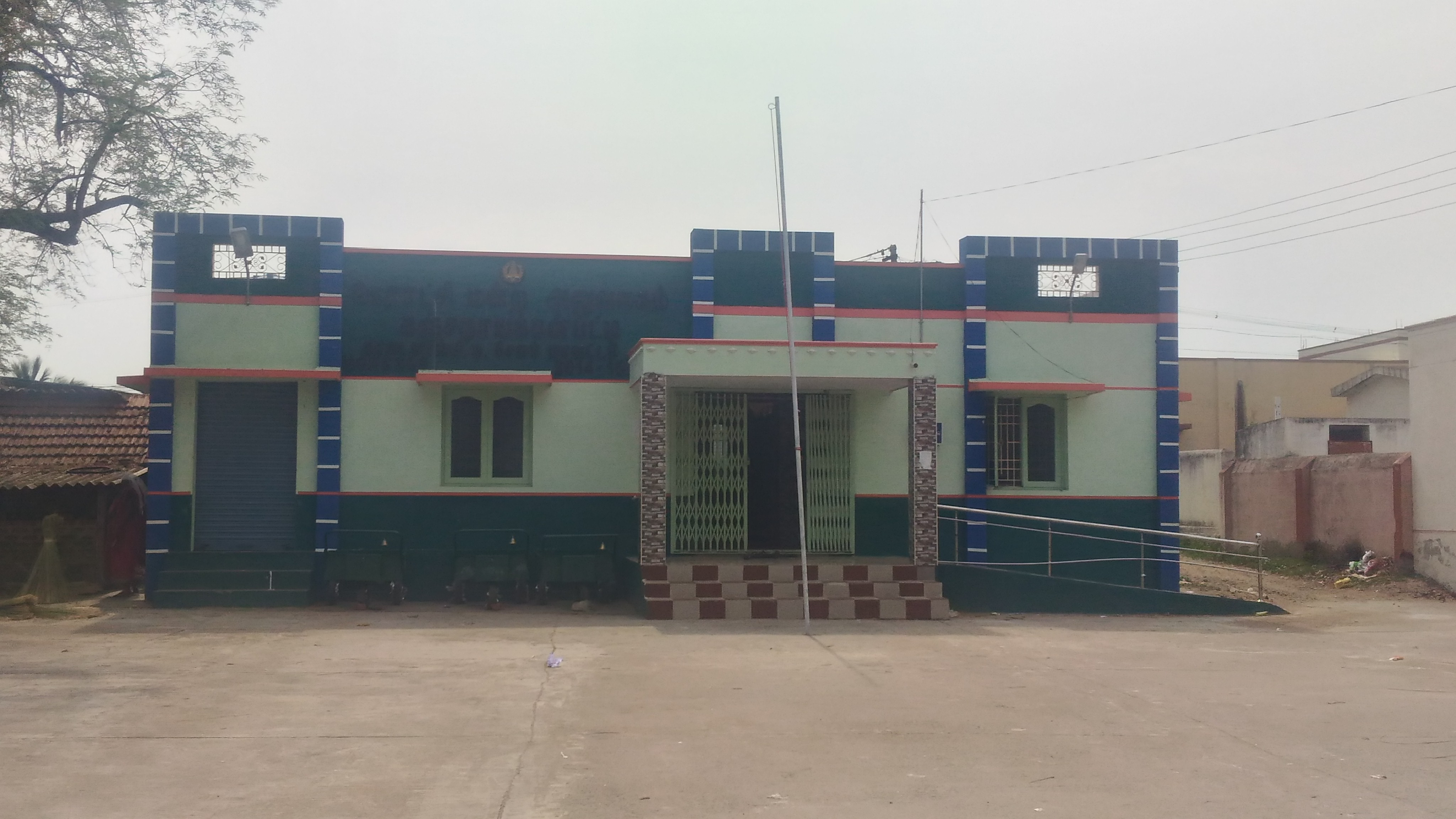 Panchayat